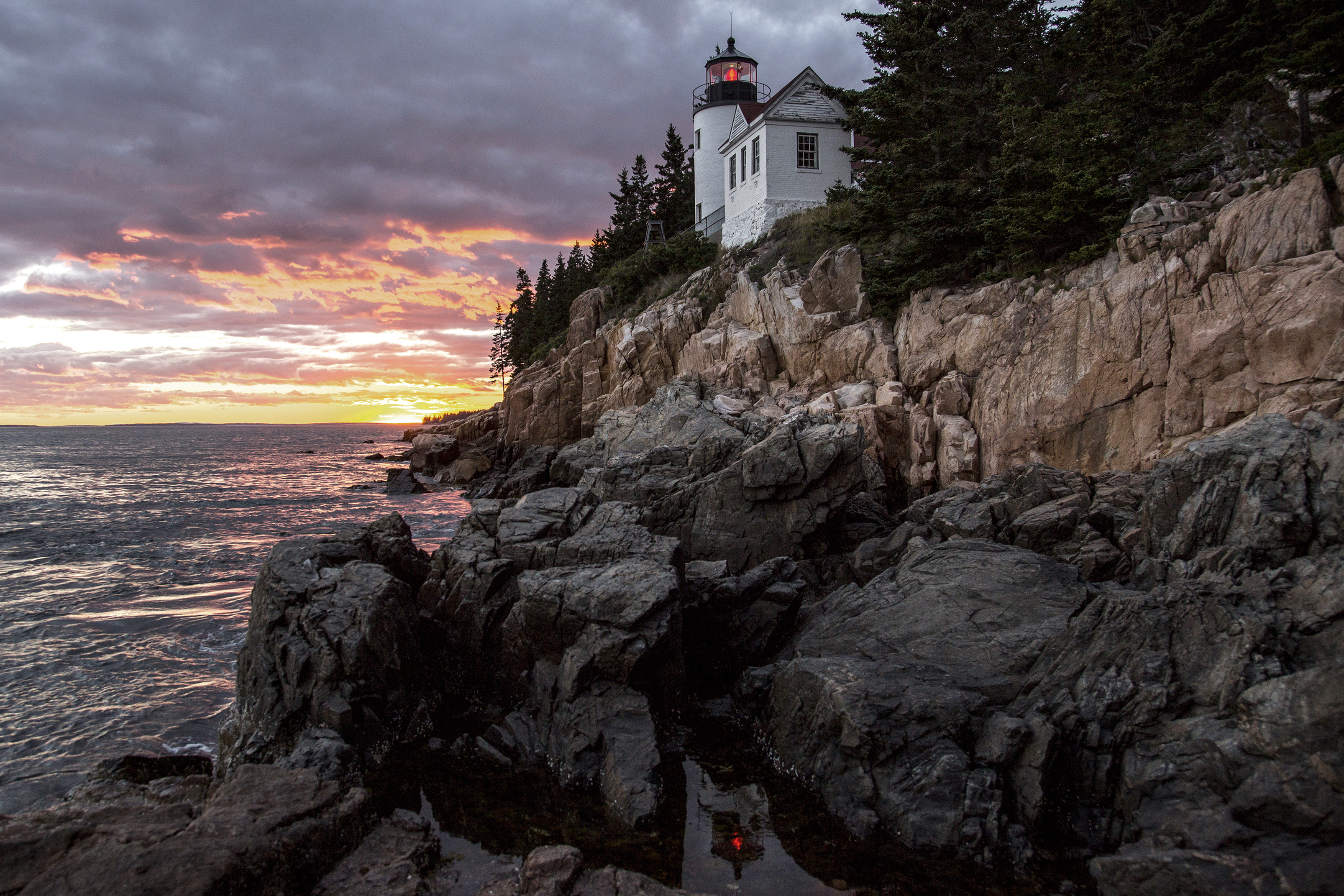 The Bass Harbor Head Light located in Acadia National Park, Maine.